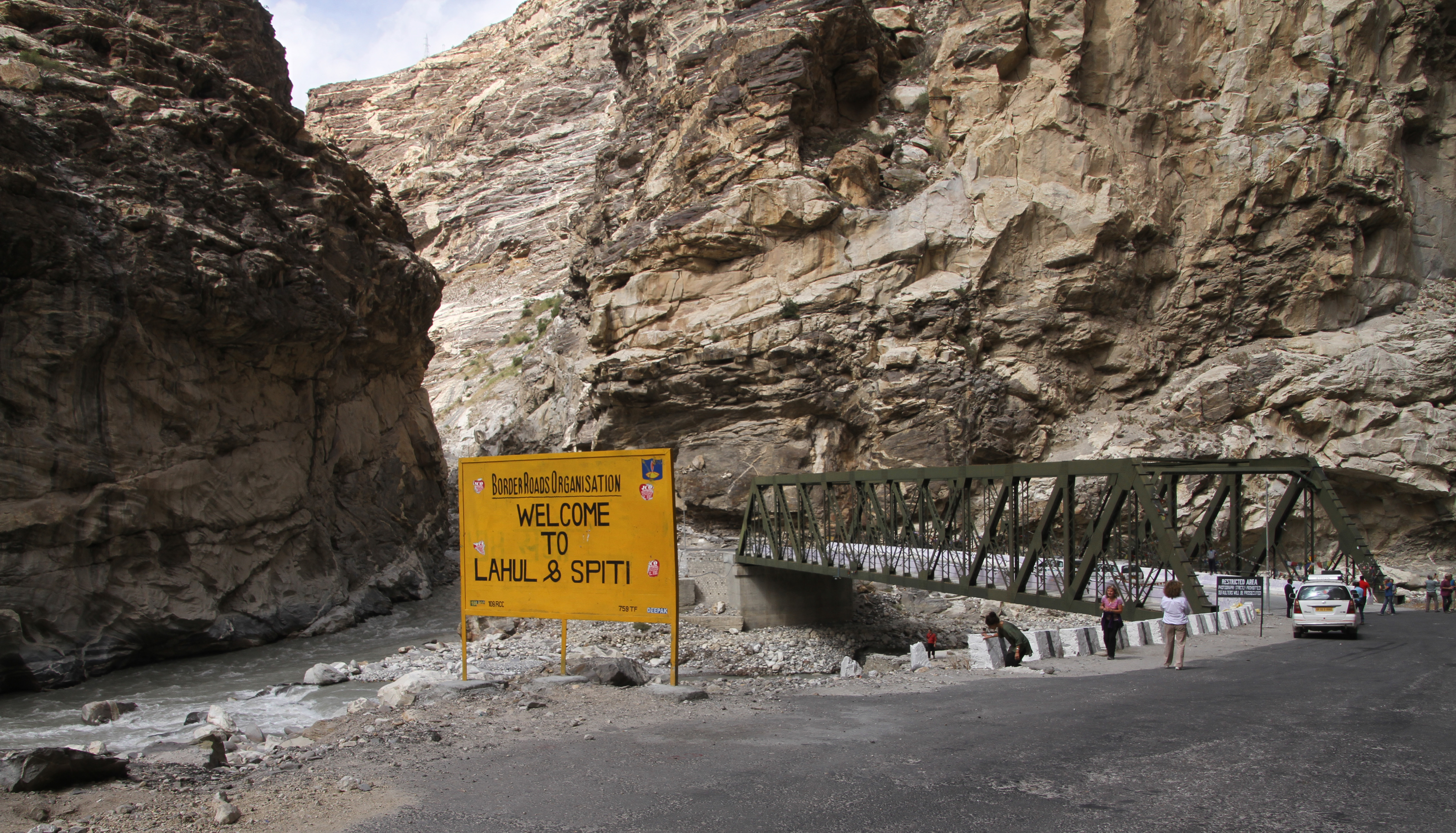 Khab close to the confluence of Satluj and Spiti in Himachal Pradesh in India.